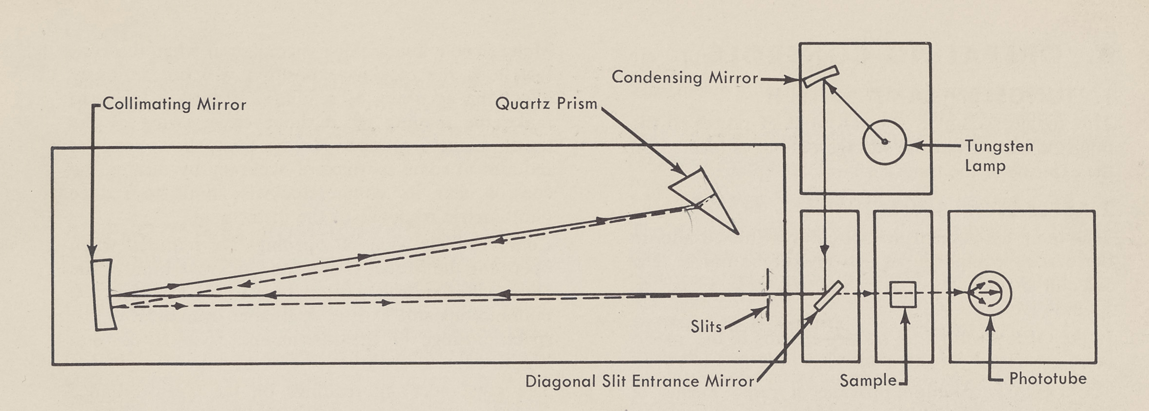 Figure 2. Diagram of Model DU Optical System from Beckman Instruments Instruction Manual / The Beckman Model DU Spectrophotometer and Accessories Beckman Division, Beckman Instruments, Inc. Fullerton, CA, [1954]. Back cover illustration states March, 1954 No copyright statement. No copyright renewals. Full caption to Figure 2, page 3, reads as follows: “Light from the tungsten lamp is focused by the condensing mirror and directed in a beam to the diagonal slit entrance mirror. The entrance mirror deflects the light through the entrance slit and into the monochromator to the collimating mirror. Light falling on the collimating mirror is rendered parallel and reflected to the quartz prism where it undergoes refraction. The back surface of the prism is aluminized so that light refracted at the first surface is reflected back through the prism, undergoing further refraction as it emerges from the prism. The desired wavelength of light is selected by rotating the Wavelength Selector which adjusts the position of the prism. The spectrum is directed back to the collimating mirror which centers the chosen wavelength on the exit slit and sample. Light passing through the sample strikes the phototube, causing a current gain. The current gain is amplified and registered on the null meter. Figure 2. Diagram of Model DU Optical System”